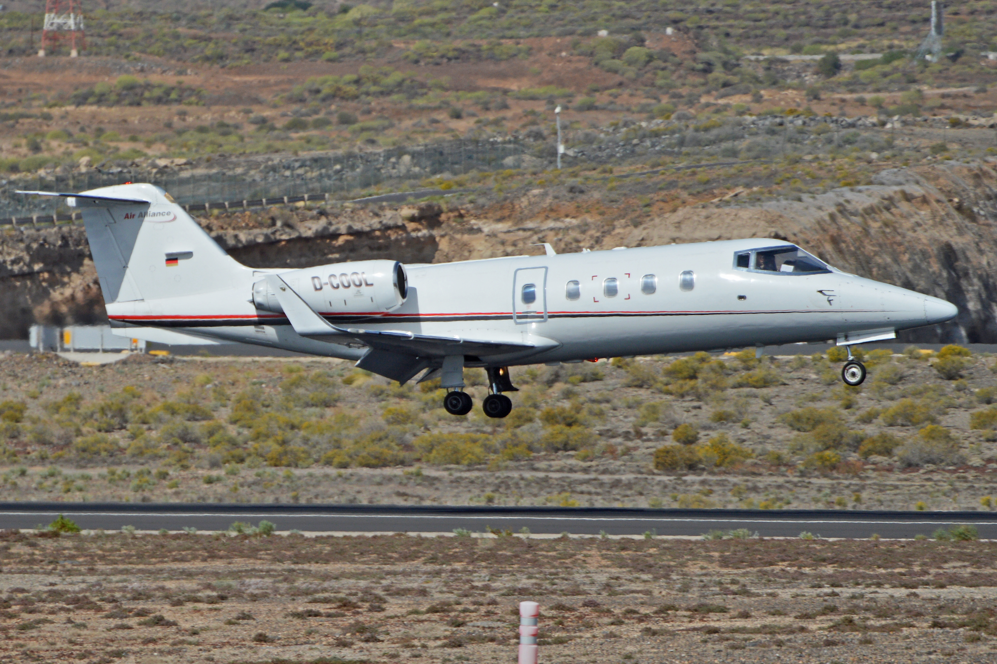 c/n 55-052. Built 1982. Arriving at Tenerife South Airport, Canary islands. 17-1-2016